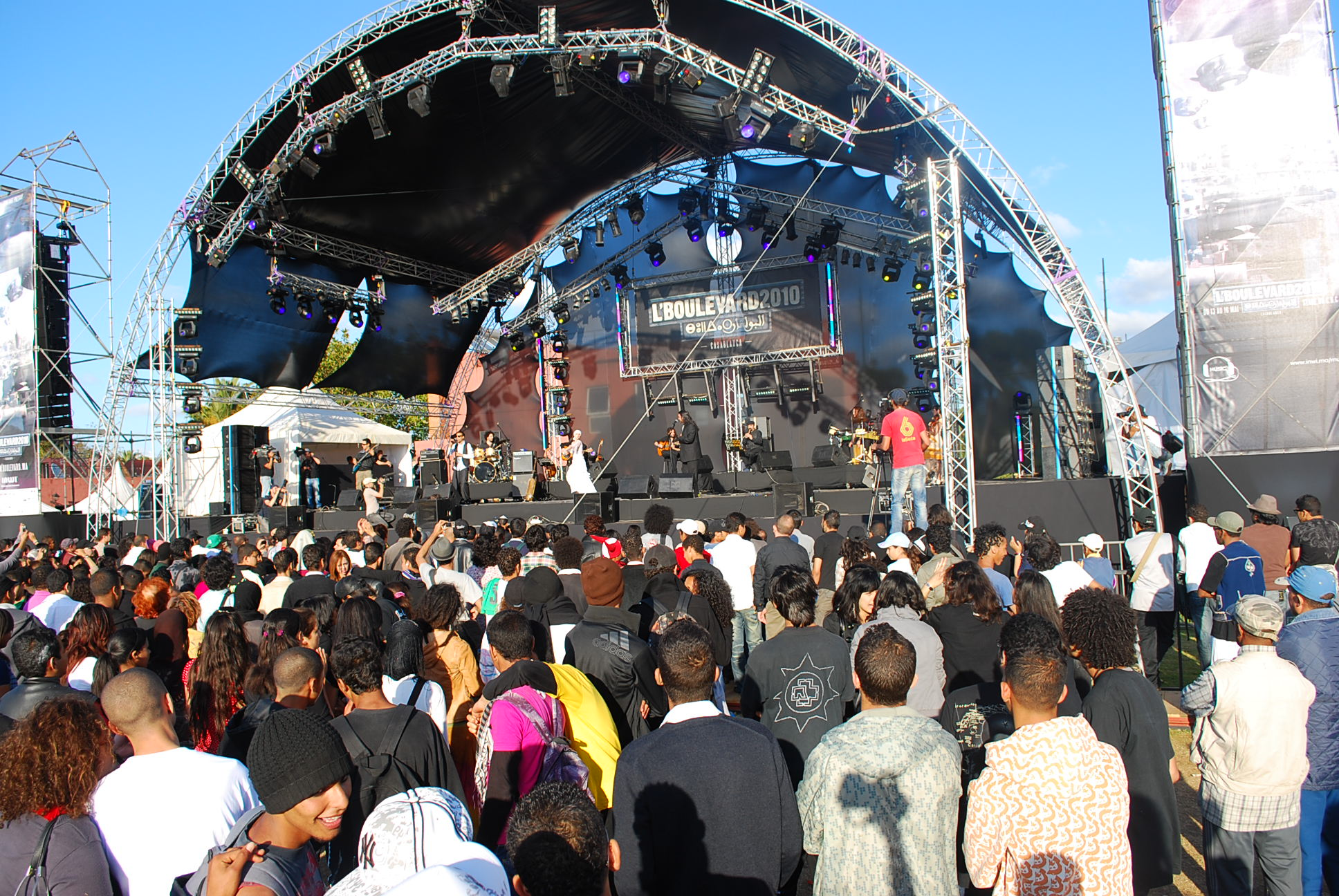 Boulevard des Jeunes Musiciens